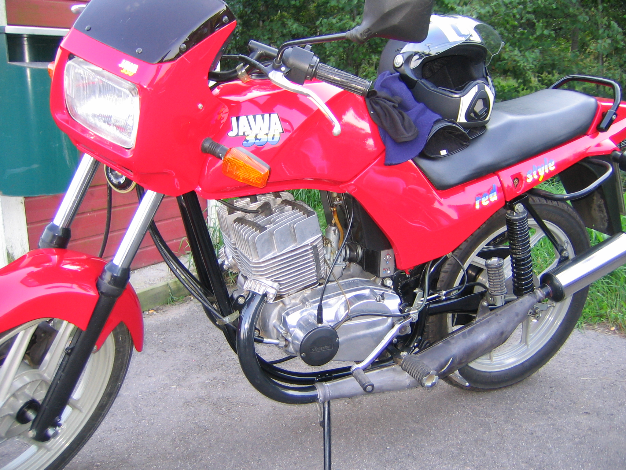 A Czech made Jawa motorcycle, Model 640 two stroke 350cc (around 2003)